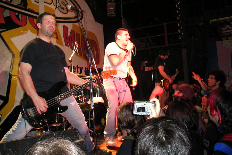 Italian Punk Rock band Derozer plays at Magic Bus, a club in Marcon near Venice